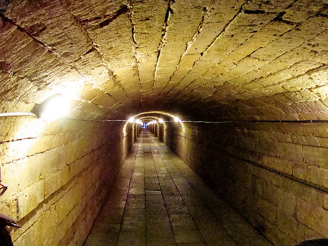 Tunnel between the Grand Gatchina Palace and Silver Lake